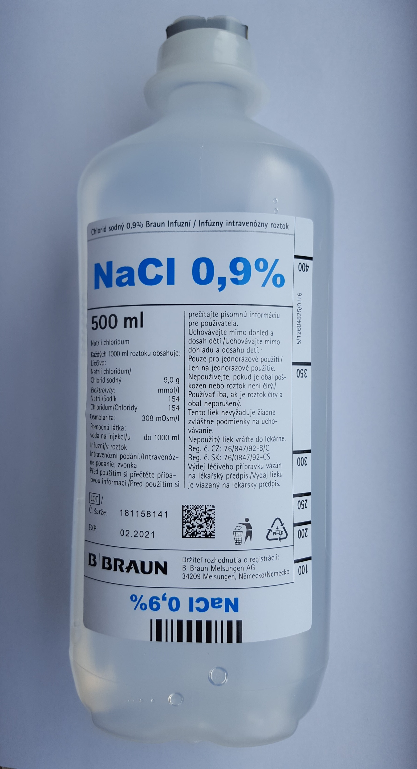 NaCl 0,9% solution